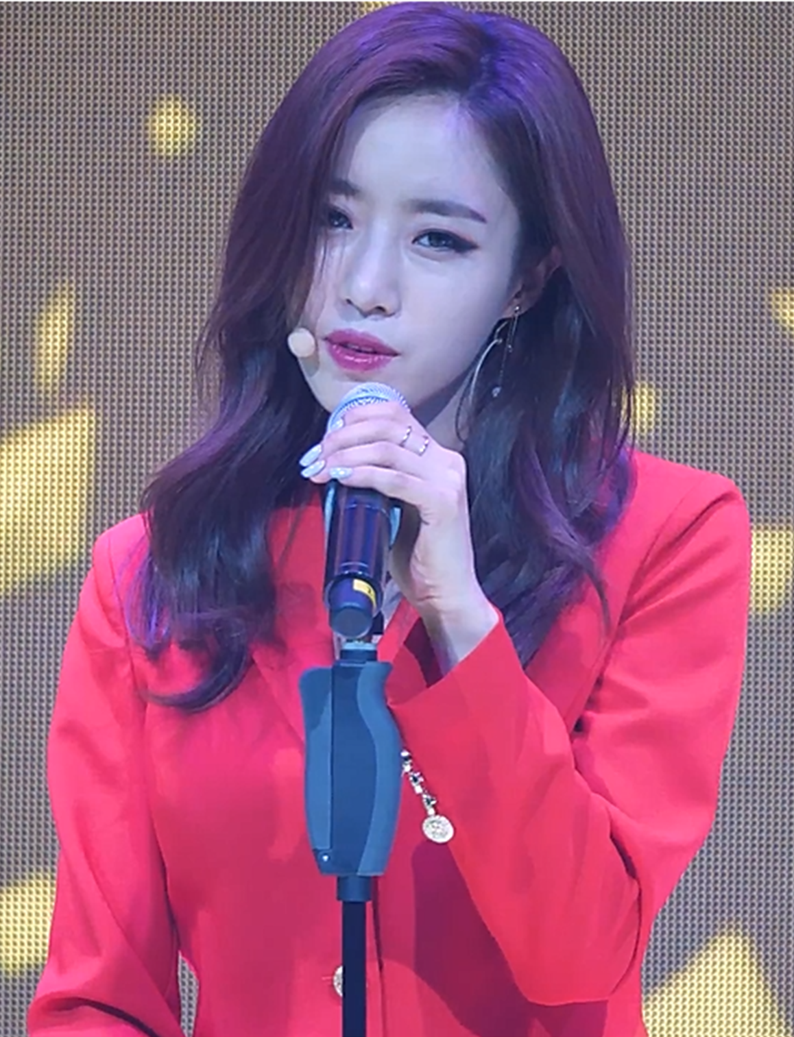 Elsie Hahm performing "Real Love" at 13rd Mini Album Showcase on June 14, 2017.